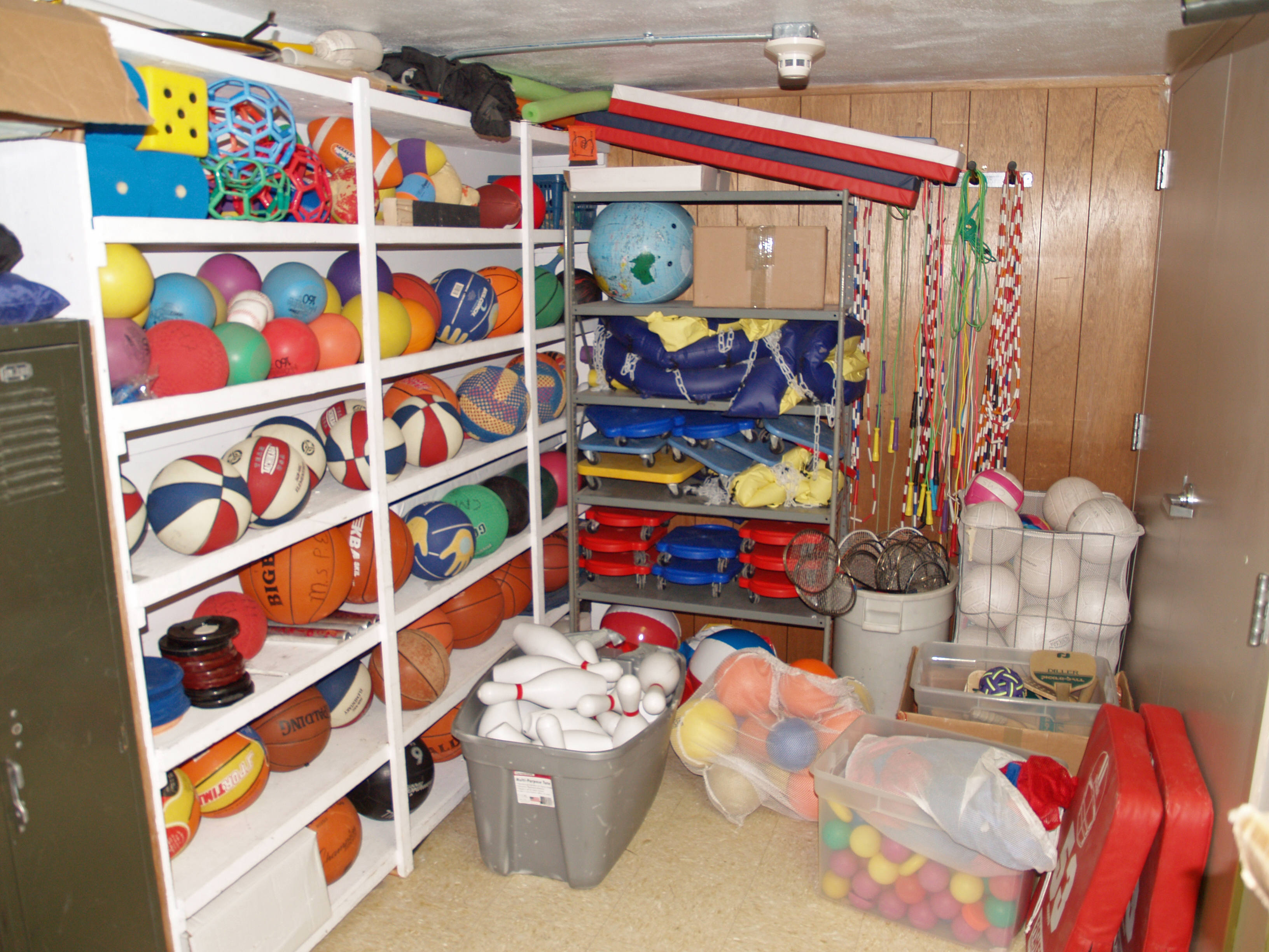 Calhan, Colorado high school physical education equipment.